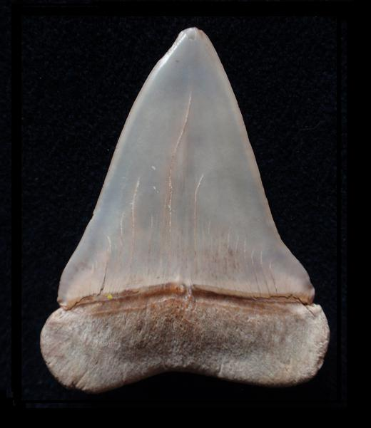 Isurus hastalis tooth (labial view)